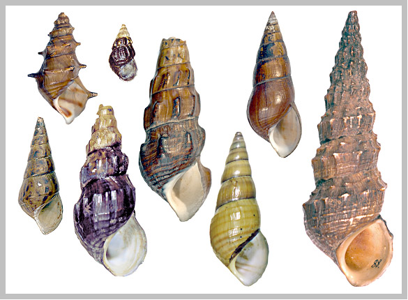 Shells of various species from different genera within the family Pachychilidae, Gastropoda. Upper row from left to right: Brotia pagodula Brotia verbecki Sulcospira schmidti. Lower row, from left to right: Sulcospira housei Brotia sumatrensis Brotia episcopalis Brotia citrina Jagora asperata